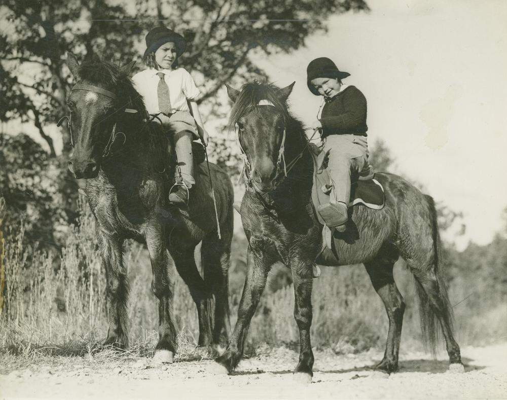 Photographer: George Jackman for Queensland Newspapers Pty. Ltd. Location: Whites Hill, Brisbane, Queensland, Australia Date: Undated Description: Dawn Stone and Patricia Hart, members of a riding club, are pictured on their small ponies at Whites Hill. (Description supplied with photograph) View this image at the State Library of Queensland: Information about State Library of Queensland’s collection: You are free to use this image without permission. Please attribute State Library of Queensland.